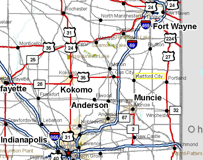 This is the east central portion of the US DOT map of the National Highway System in Indiana. Hartford City has been highlighted.